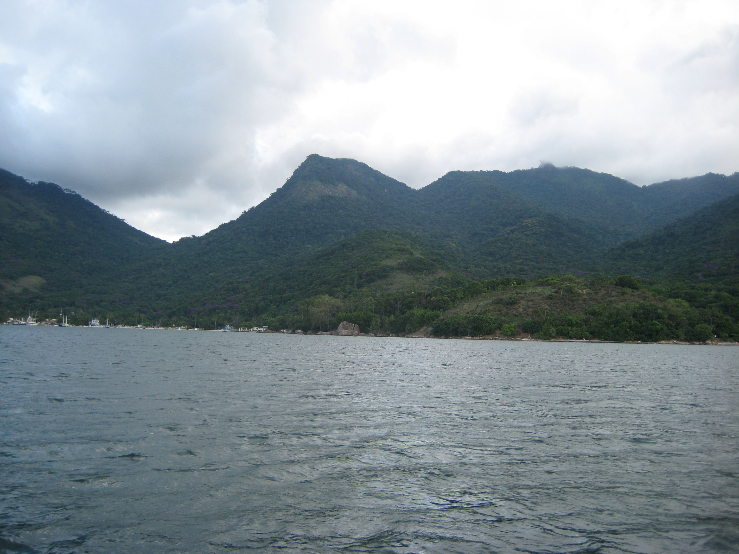 Ilha grande